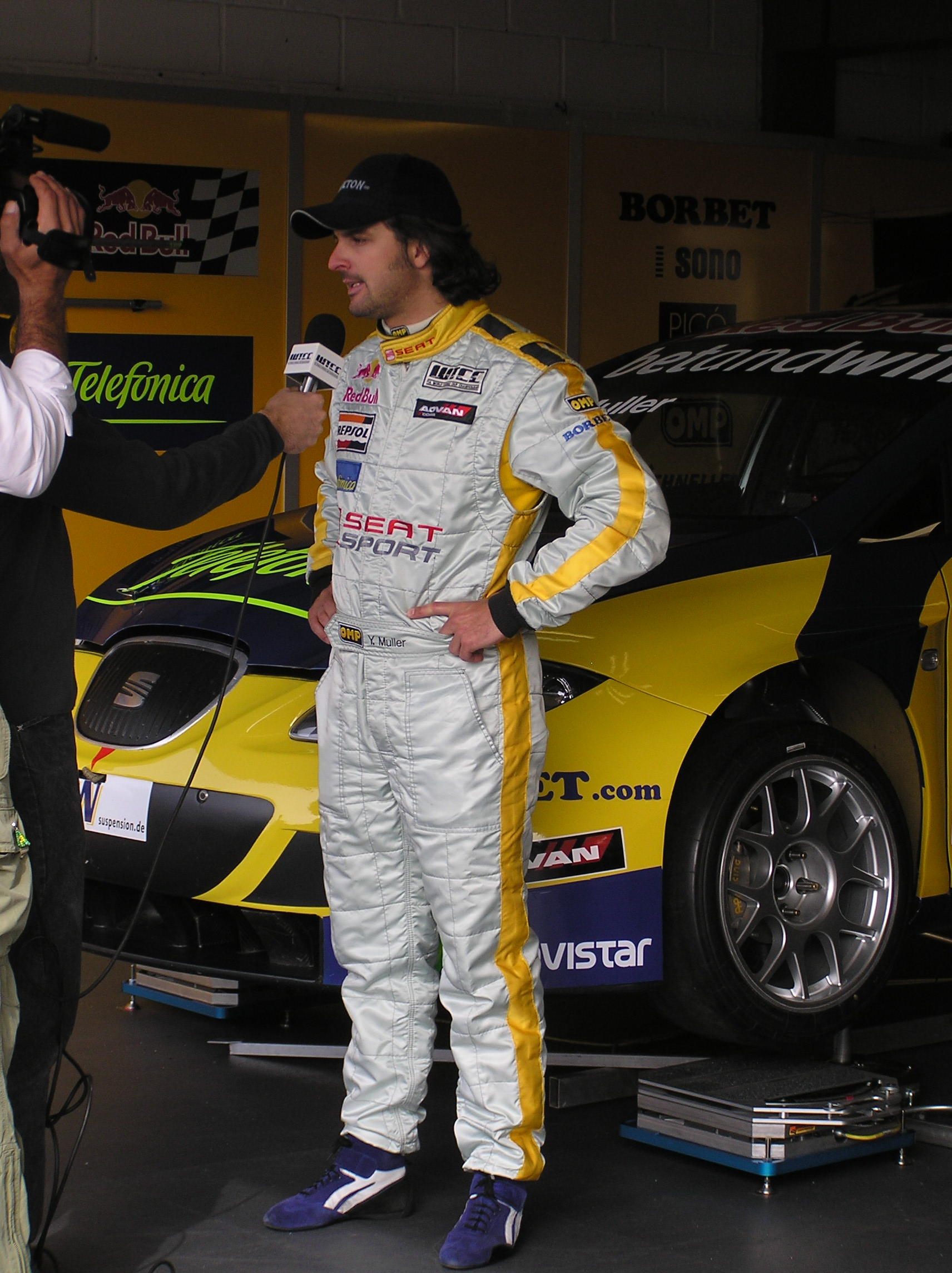 World Touring Car Championship 2006 Curitiba: Yvan Muller (SEAT Sport France)